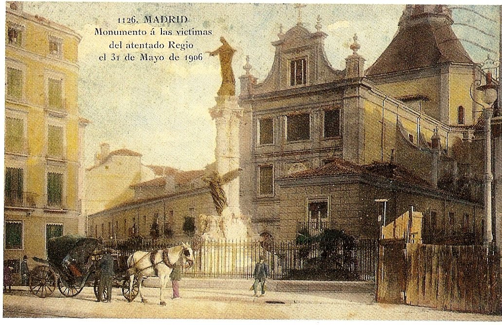 Former Monument to victims of the attack of May 31, 1906 against Alfonso XIII, Madrid. Lithograph, hand coloured and derived from B&W photo original.